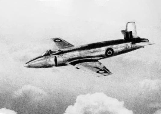 The second Supermarine Type 398 Attacker (serial TS413) in flight. It made its first flight on 17 June 1947. TS413 powered by a Rolls Royce Nene 3 Mk.101 turbojet (22.7 kN thrust). It featured a Martin-Baker Mark 1 type ejection seat, a yoke-style arresting hook, long-stroke landing gear, attachments for a catapult strop in the wheel wells, provisions for rocket-assisted takeoff gear (RATOG), and lift dumpers. TS413 already crashed on 17 September 1947 near Bulford Village near Amesbury on take-off from RAF Boscombe Down.